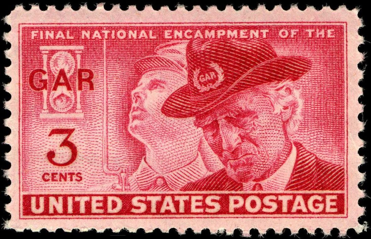 Image of US postage stamp commemorating the Grand Army of the Republic